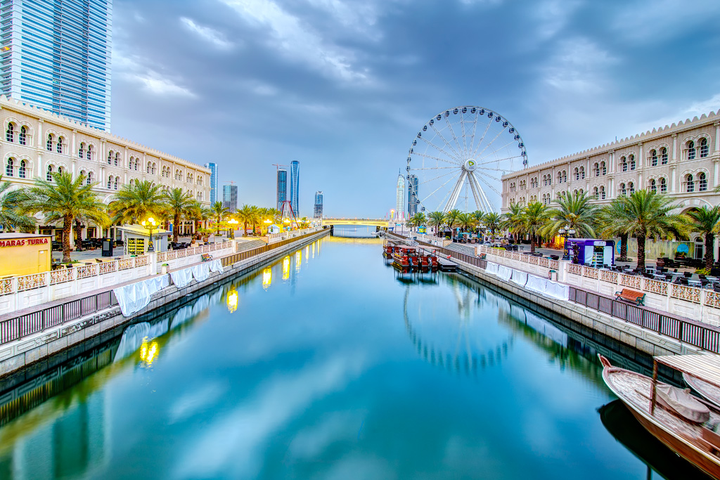 High Dynamic Range (HDR) image made out of three pictures. Taken in Al Qasba - Sharjah, United Arab Emirates